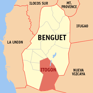 Map of Benguet showing the location of Itogon